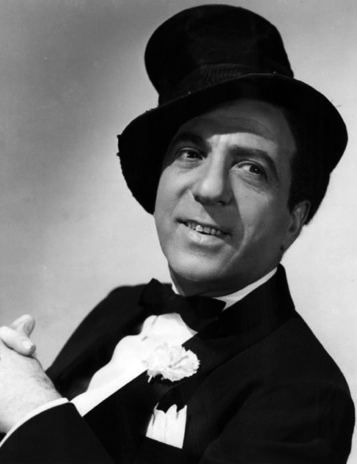 Publicity photo of bandleader/musican Ted Lewis.